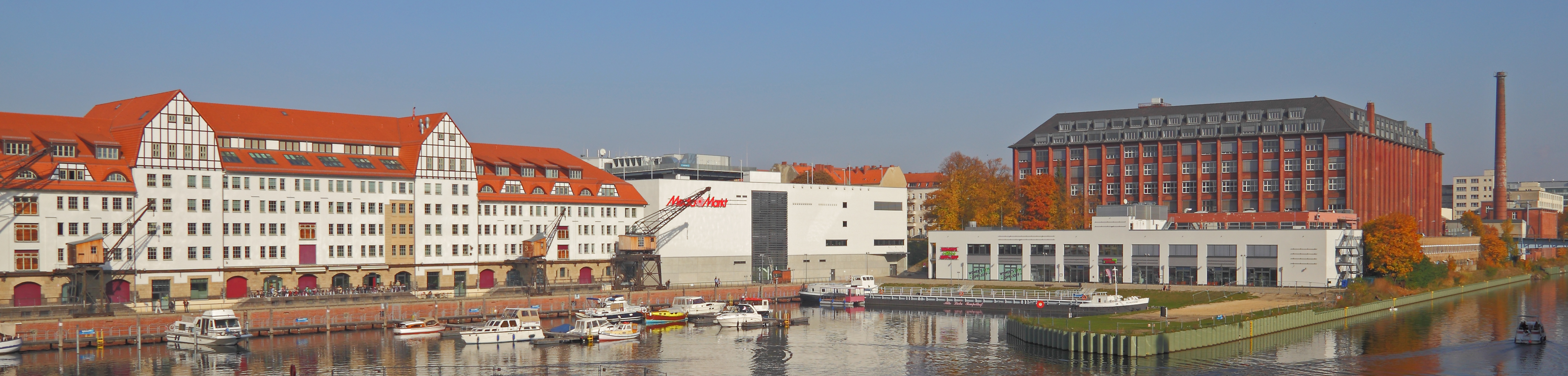 Berlin-Tempelhof. Tempelhof Harbour on the Teltow Canal.